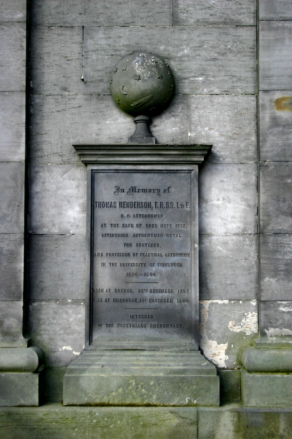 This memorial panel is set into the exterior wall of the City Observatory on Calton Hill, Edinburgh. It reads "In Memory of Thomas Henderson, F.R.SS.L&E. H.M. Astronomr at the Cape of Good Hope 1832, afterwards Astronomer-Royal for Scotland, and Professor of Practical Astronomy in the University of Edinburgh 1834-1844. Born at Dundee, 28th December 1798. Died at Edinburgh, 23rd November 1844. Interred in the Greyfriars' Churchyard.